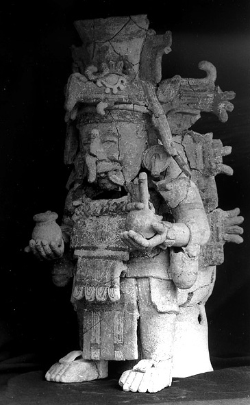 Maya Chaac — a Maya god.